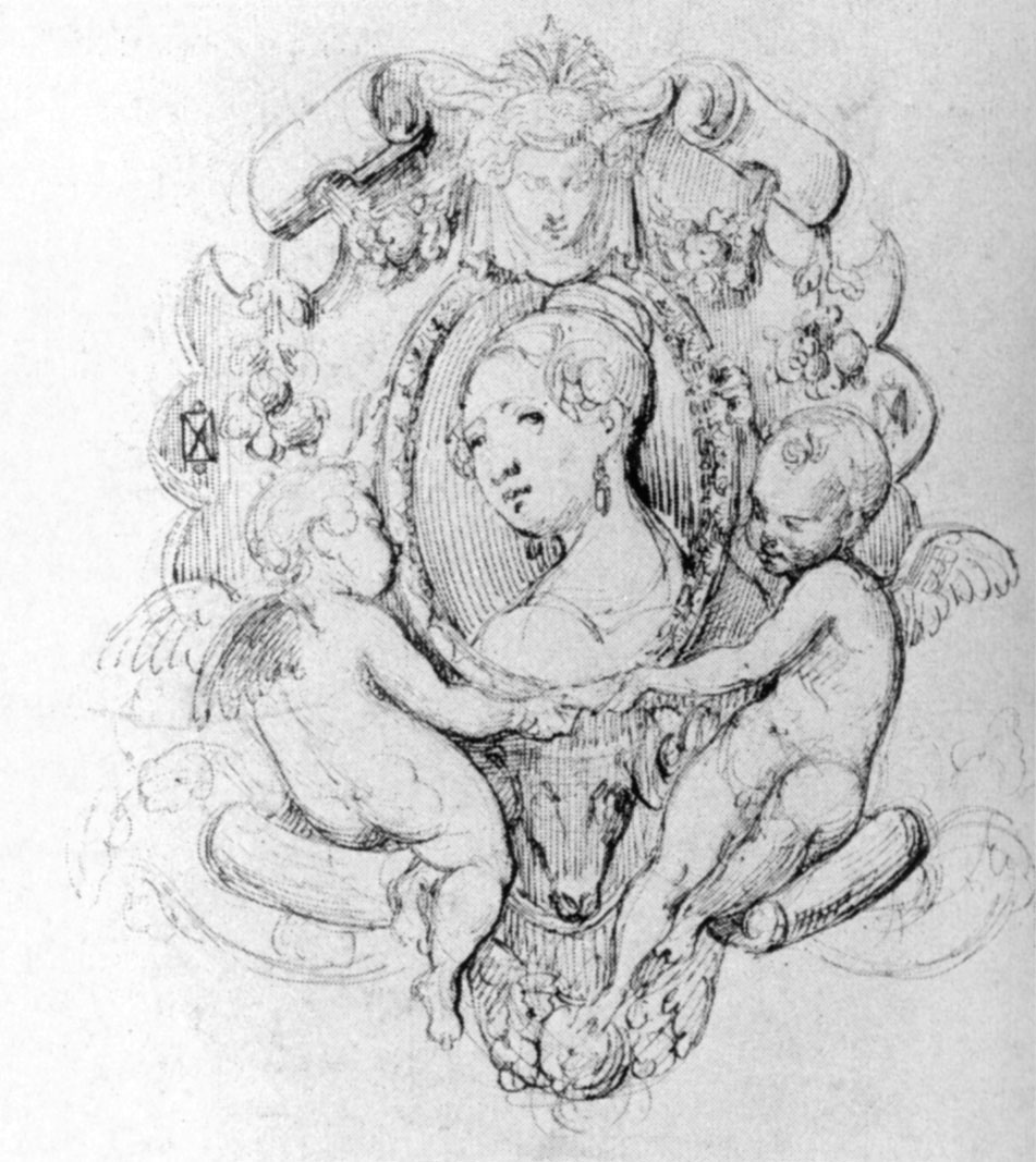 Portrait of Madame Duponchel [Marie-Joséphine Blanchard (1810–1896)]. Sketch made for the manufacture of a miniature setting in precious metal for the Maison Morel et Duponchel (see Henri Duponchel)